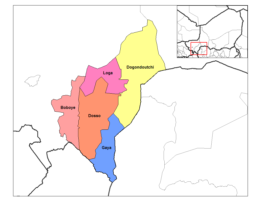 Summary Map of the arrondissements of Dosso department in Niger. Created by Rarelibra 14:59, 13 September 2006 (UTC) for public domain use, using MapInfo Professional v8.5 and various mapping resources.